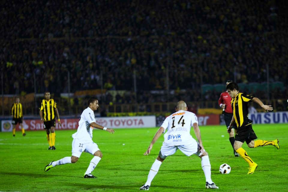 Danilo and Bruno Rodrigo for Santos and Luis Aguiar for Peñarol during the 2011 Copa Libertadores final in the Centenario Stadium of Montevideo.